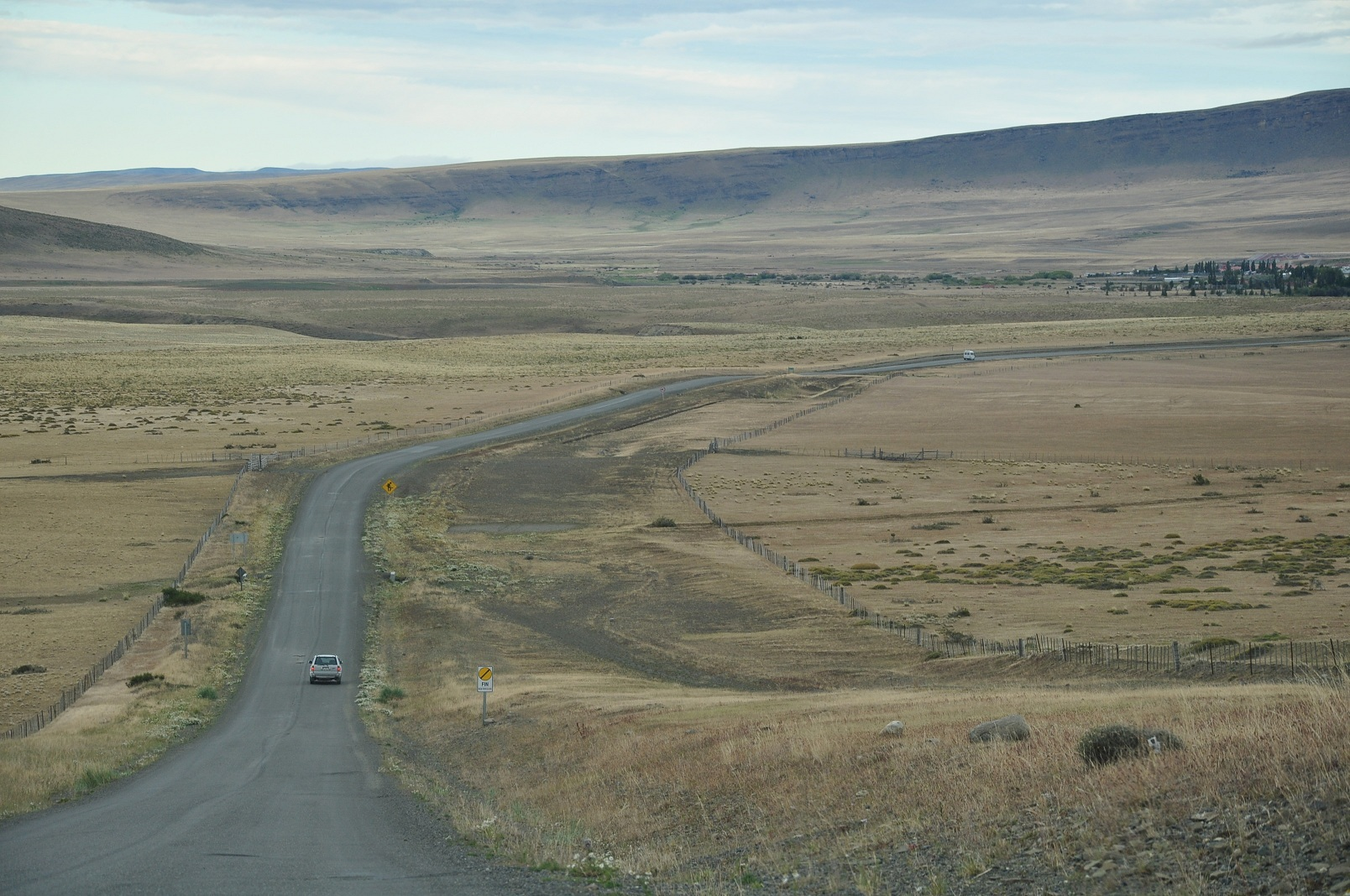 Approaching Cerro Castillo in Chilean Patagonia (Comuna Torres del Paine) from the north on Ruta 9 (CH-9). The village can just be seen on the far right.